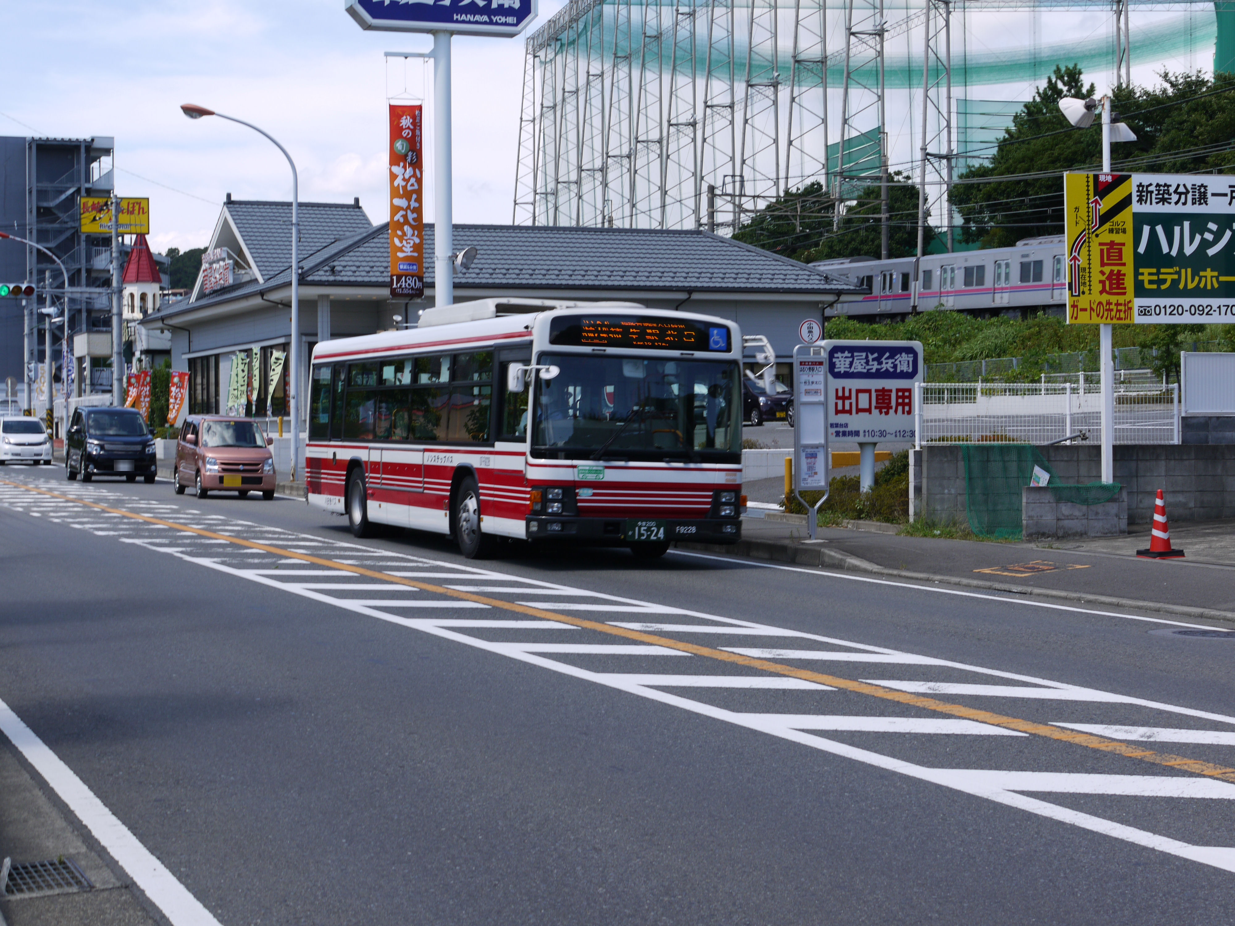 An Odakyu bus passing Haruhino station entrance bus stop